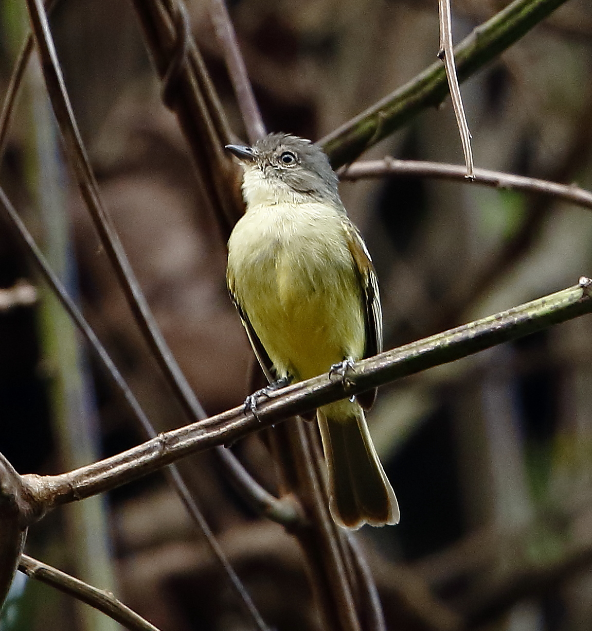 Guianan tyrannulet at Carajás National Forest - PA -Brazil